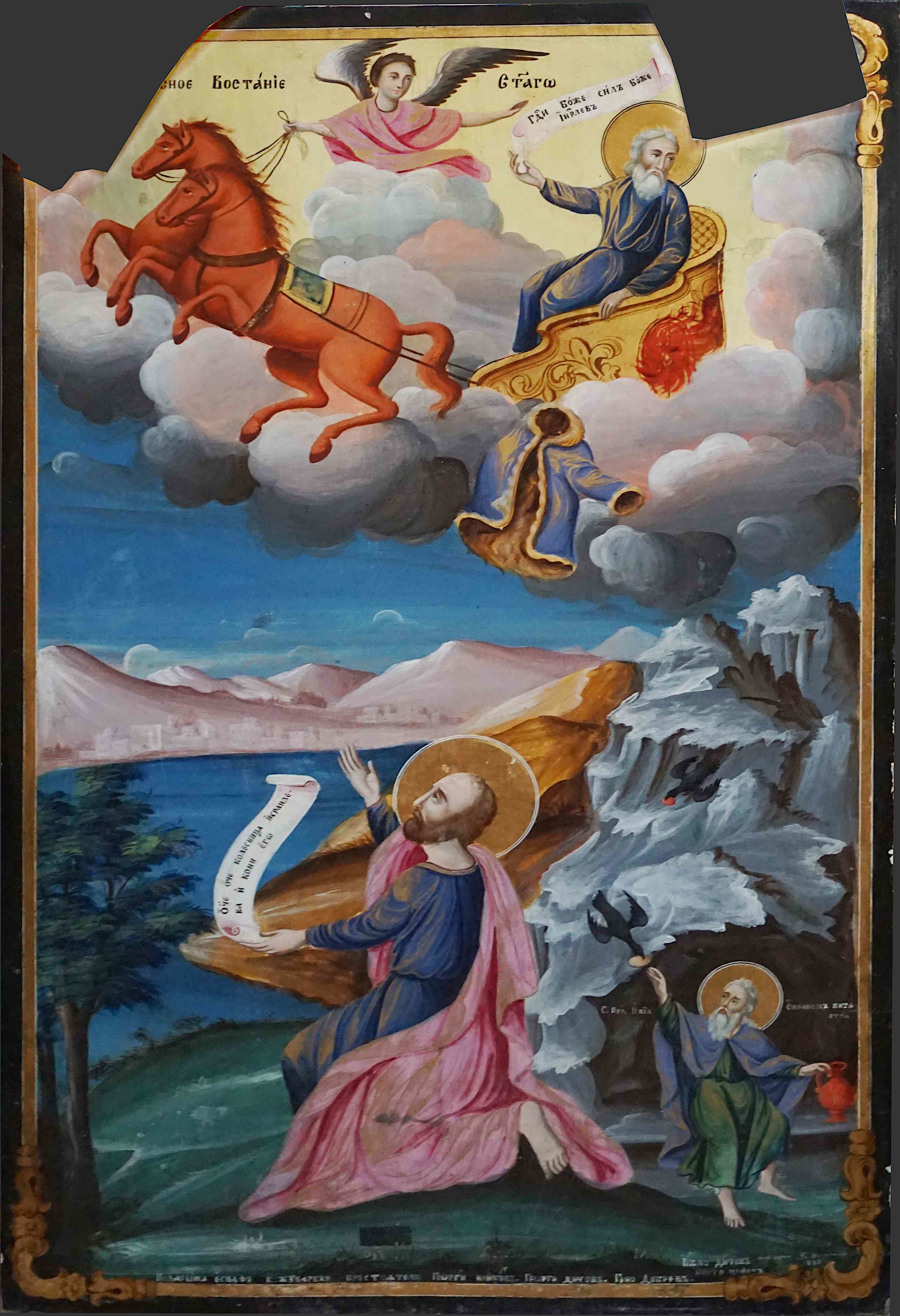 Velko Iliev - St. Elijah's Ascension